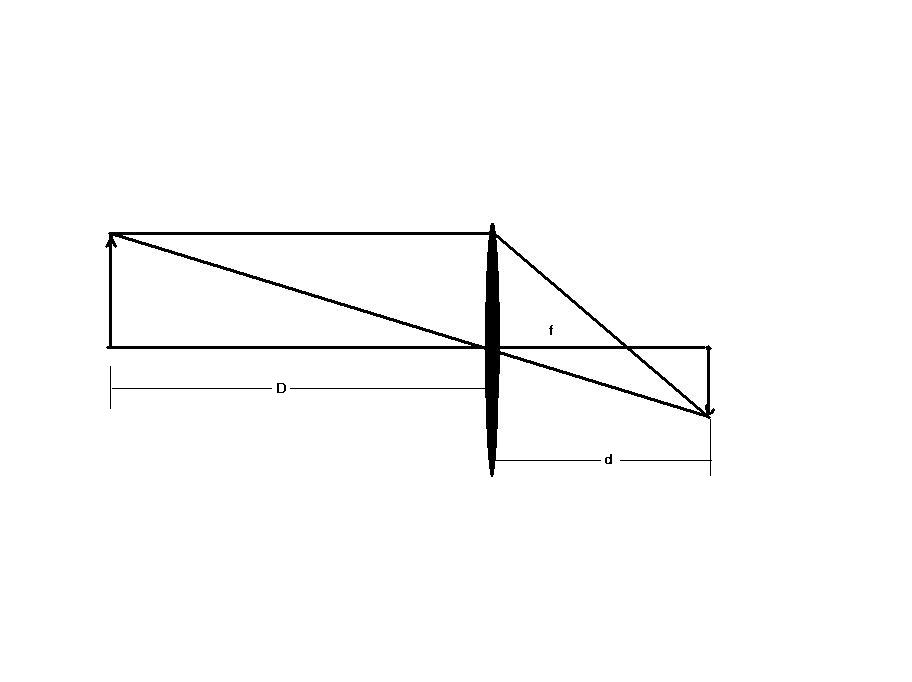 Image formation of thin lens 薄透镜成像